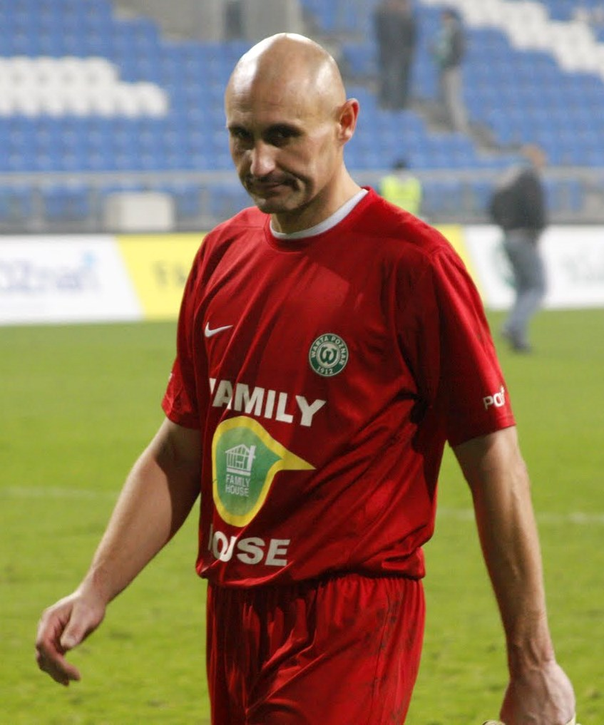 Polish association football goalkeeper Grzegorz Szamotulski